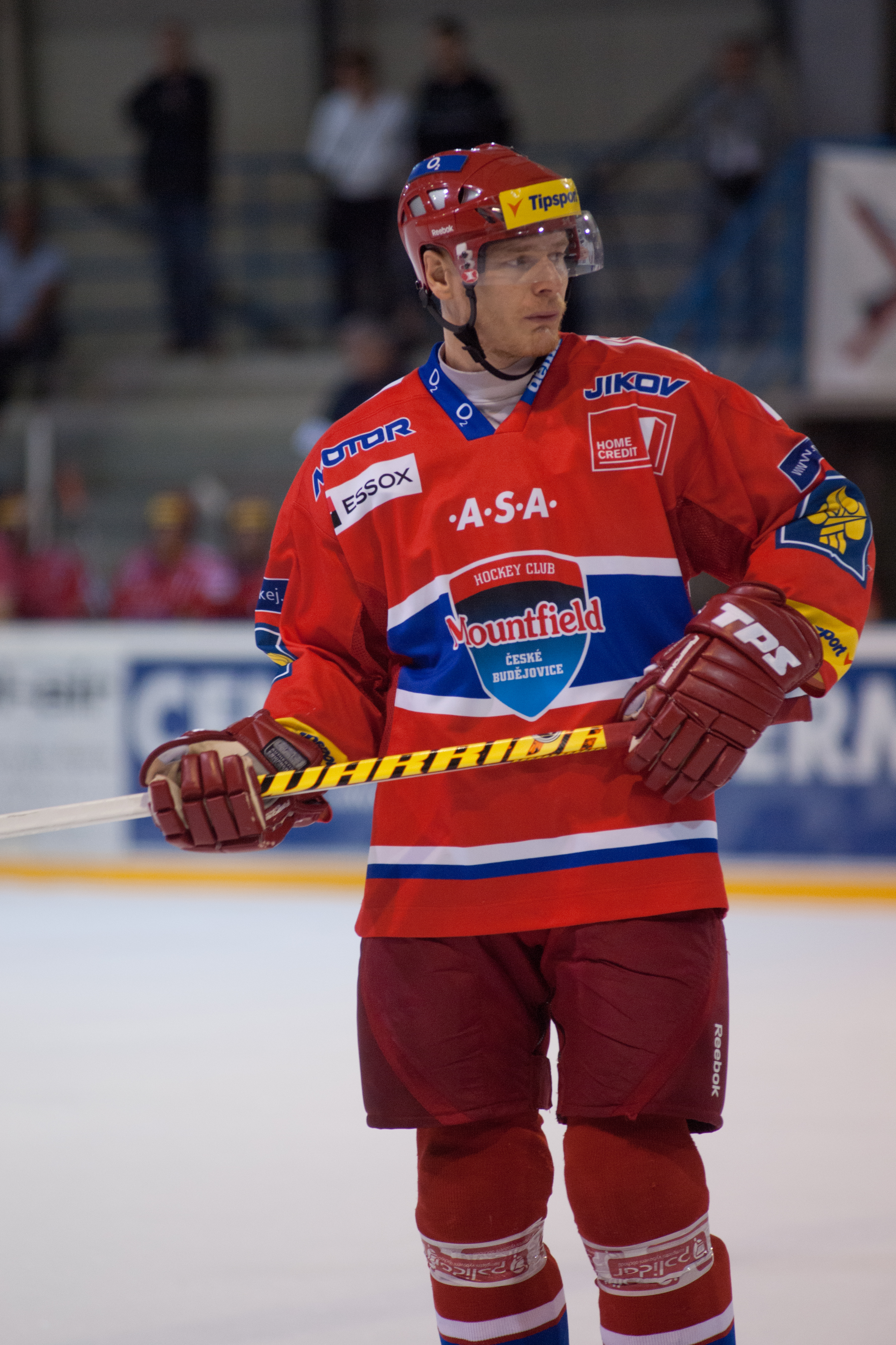 Festyvhockey 2010, Yverdon-les-Bains. The making of this document was supported by Wikimedia CH. (Submit your project!) For all the files concerned, please see the category Supported by Wikimedia CH.